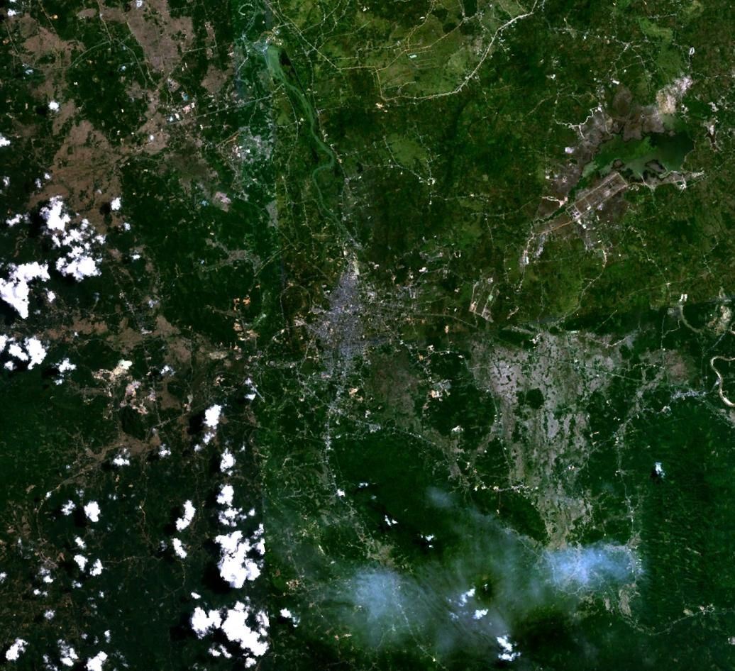 Yala, Thailand. Satellite view.